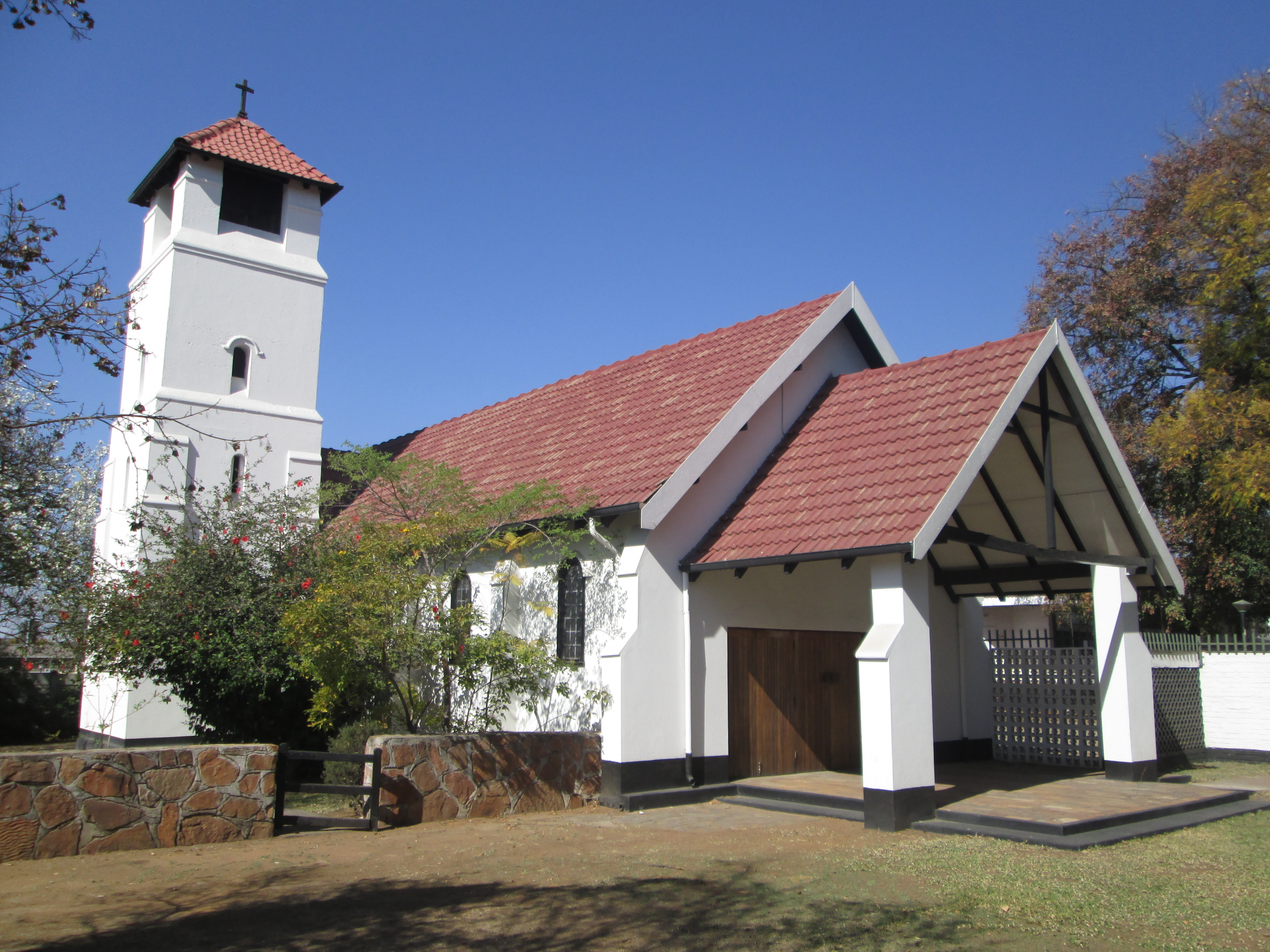 Old Anglican Church, Rustenburg This media shows a South African Protected Site with SAHRA file reference 9/2/263/0014.